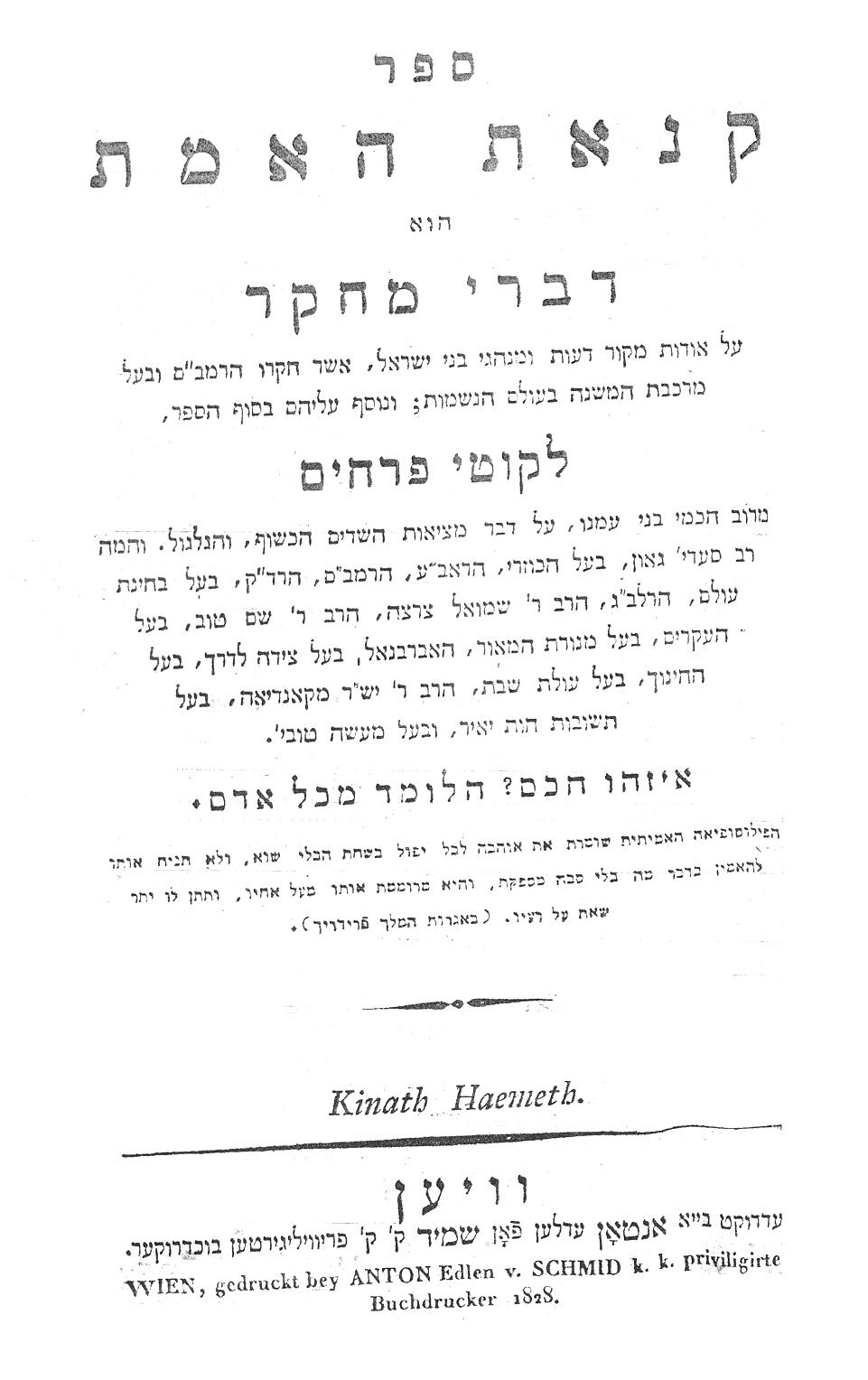 front page of "Kin'at Ha-Emet", by Hebrew Galician author Yehuda Leib Mieses (Miesis) "קנאת האמת", he:יהודה ליב מיזס